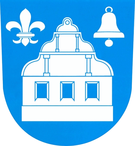 Character of Přechovice.